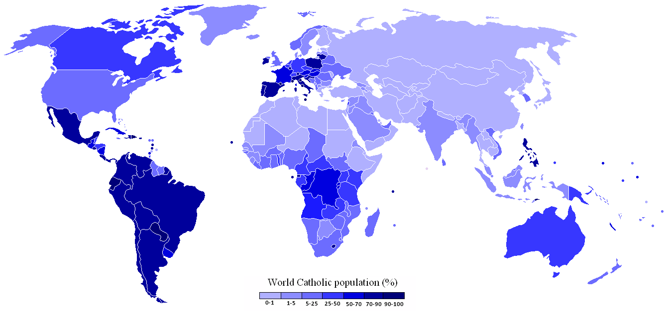 Percentage of Catholics by country